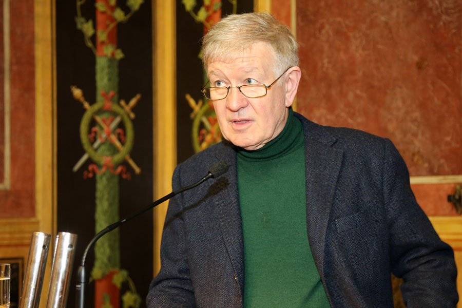 Armin Thurnher-6787